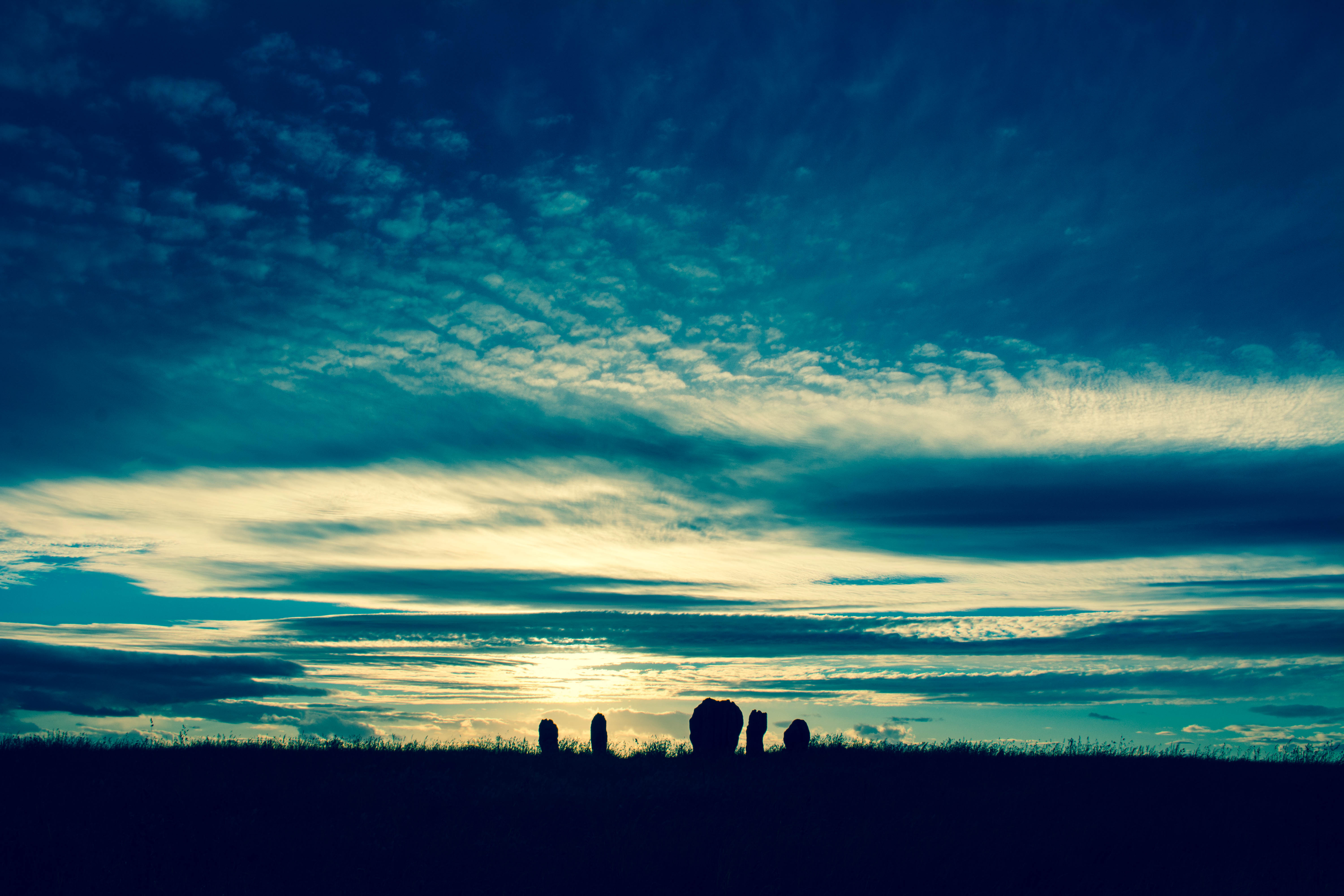 Looking north in June 2018 quite close to the solstice.